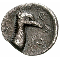 Silver obol, Stymphalia, 370-350 BC depicting Stymphalian bird on reverse.